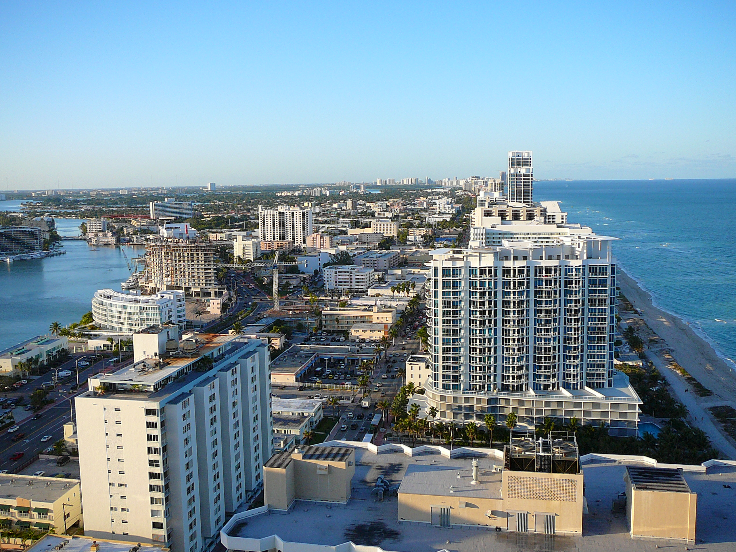 Digital photo taken by Marc Averette. The northern part of the city of Miami Beach, Florida, known as North Beach, as seen from Akoya Condominiums 2/14/2008.